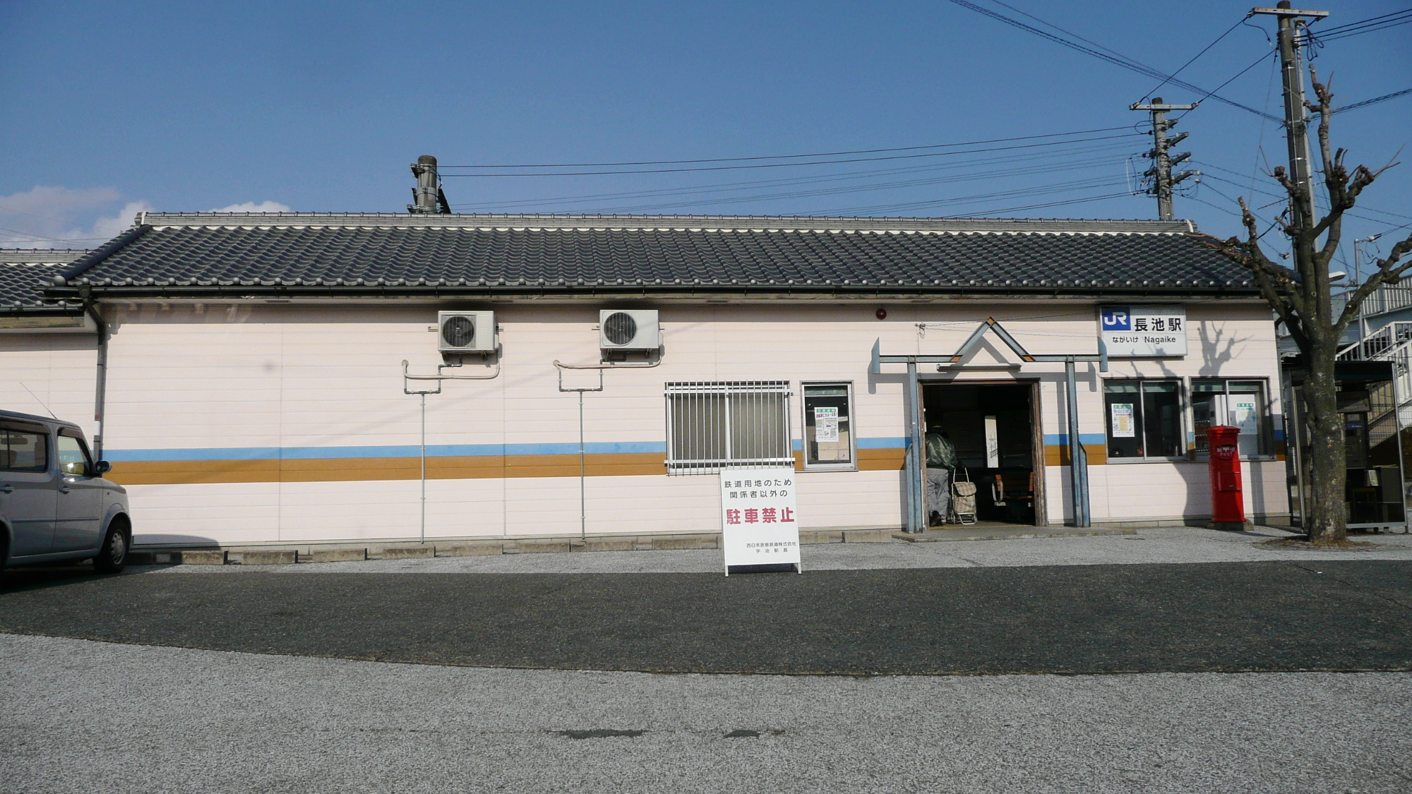 West Japan Railway,Nara Line,Nagaike Station. / 奈良線長池駅